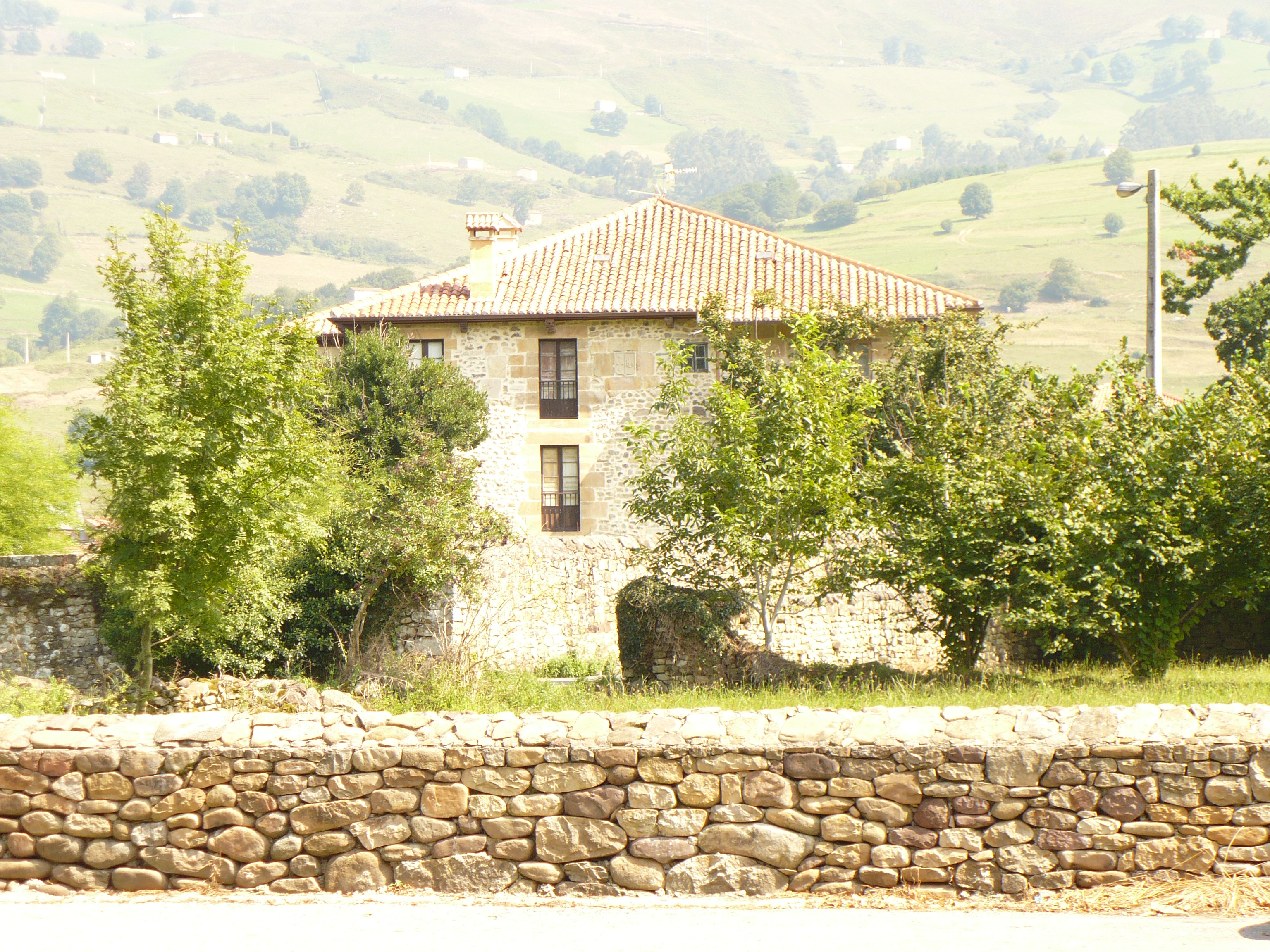 House in Vega de Villafufre, Cantabria